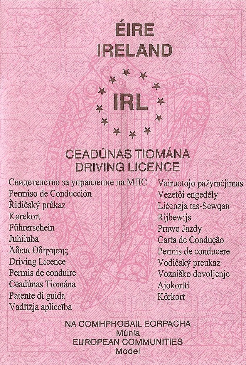 Irish Drivers Licence, which is valid through out the European Community as is also a European Licence.